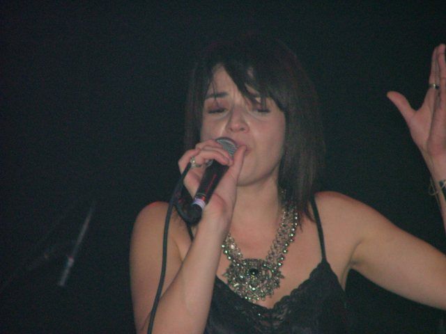 Italian songwriter Carmen Consoli at Cortemaggiore